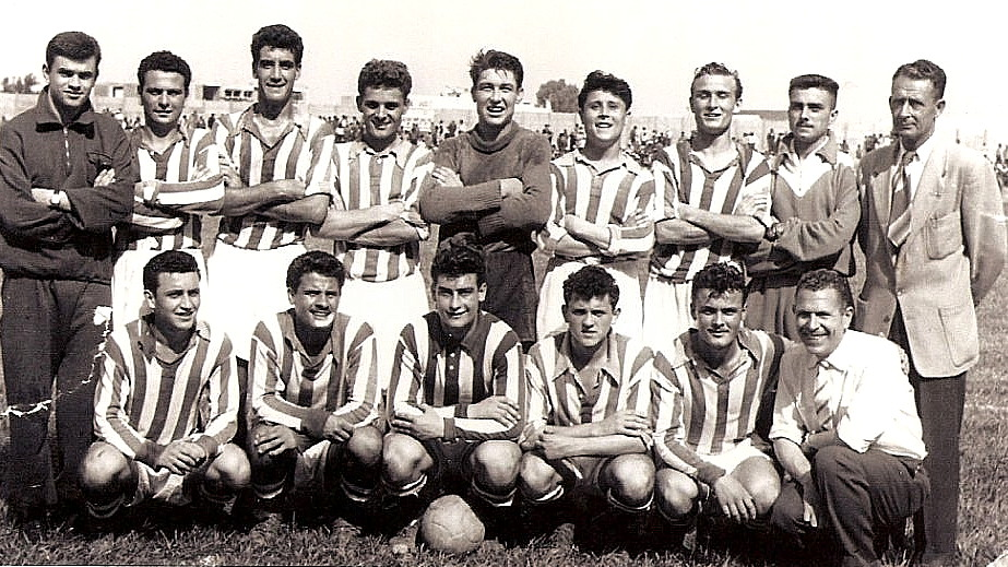 Picture of young soccer team of AS Saint-Eugène, winner of youth north african champion's cup.